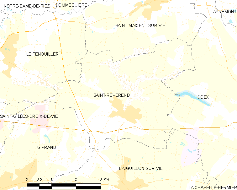 Map of French municipality Saint-Révérend